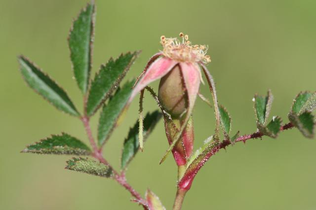 (en) Rosa agrestis, a photography originating of the internet site The accord of the autor, H. Brisse, is here. (fr) Rosa agrestis, une photographie issue du site internet L'accord de l'auteur, H. Brisse, se situe ici.